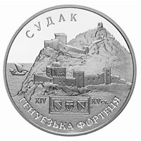 Coin of Ukraine